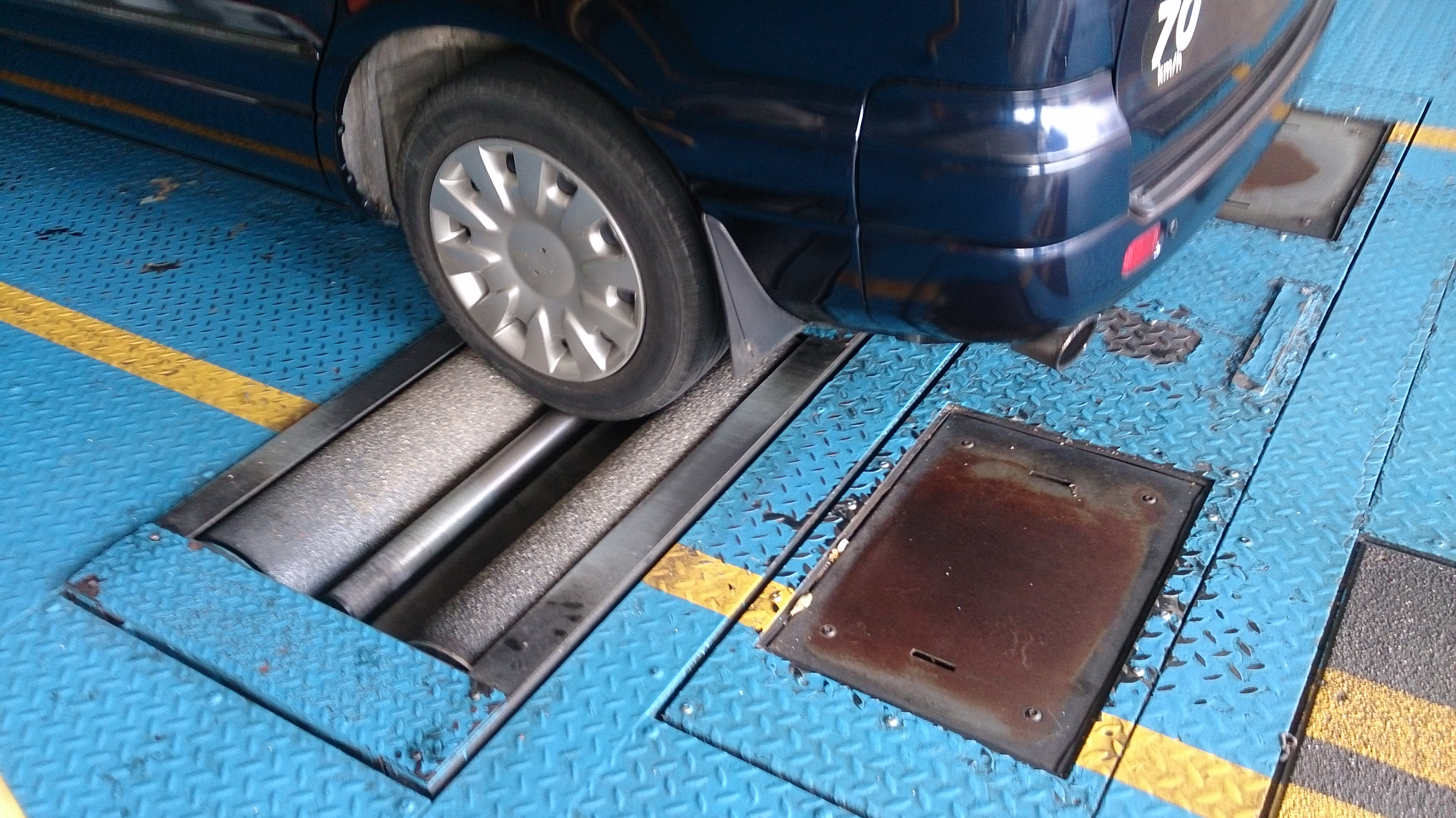 Car brake test